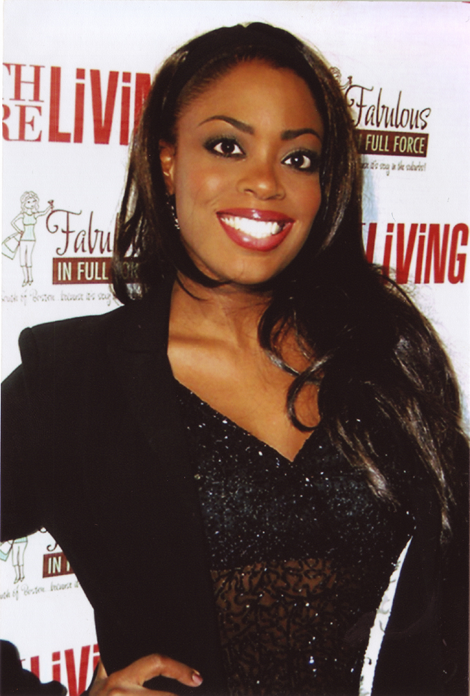 Kizzy Getrouw tijdens de InFullForce Fabulous mode show in Quincy MA. Kizzy Getrouw at the InFullForce Fabulous fashion show in Quincy MA.